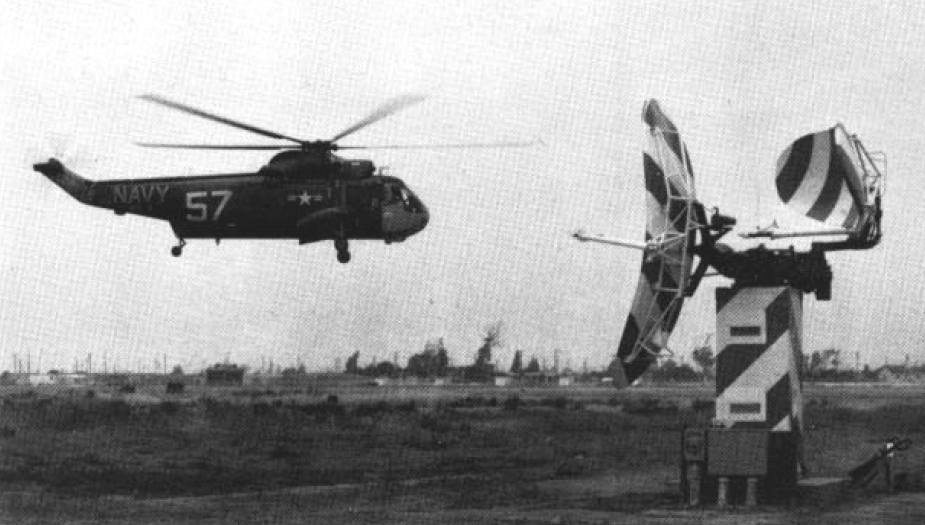 A U.S. Navy Sikorsky SH-3A Sea King of Helicopter Anti-Submarine Squadron 4 (HS-4) "Black Knights" makes the first ground controlled approach landing at NAAS Ream Field, Imperial Beach, California (USA), circa 1964.